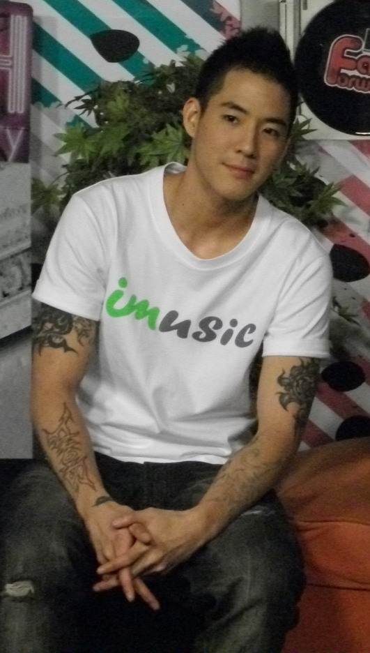 Howard Wang at MTV Fast Forward